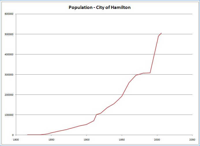 Population of the City of Hamilton 1816-2006